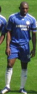 Cameroonian football (soccer) player Geremi Njitap